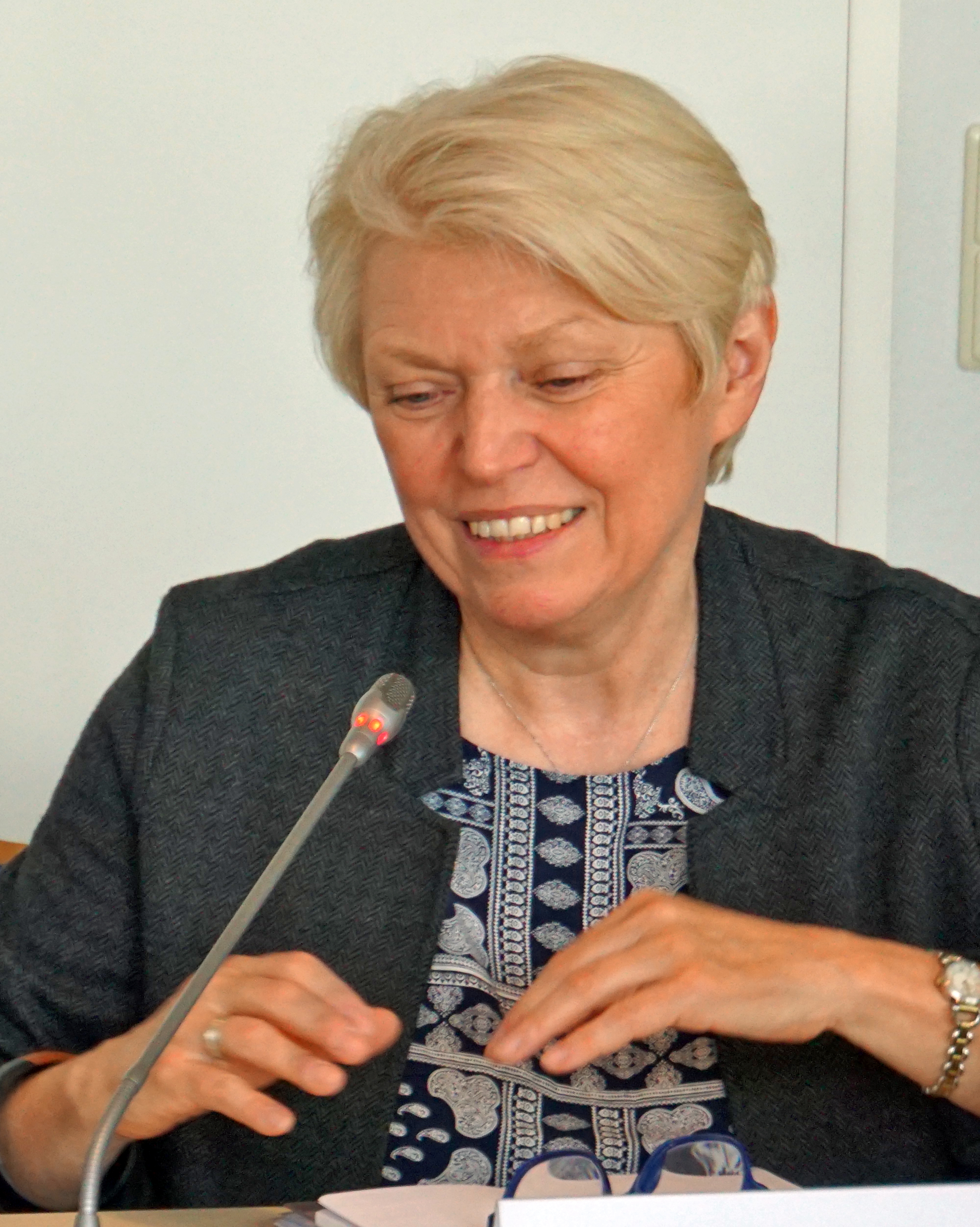 OSCE PA Treasurer Doris Barnett during the 7th Session of the Seminar, 5 May 2019